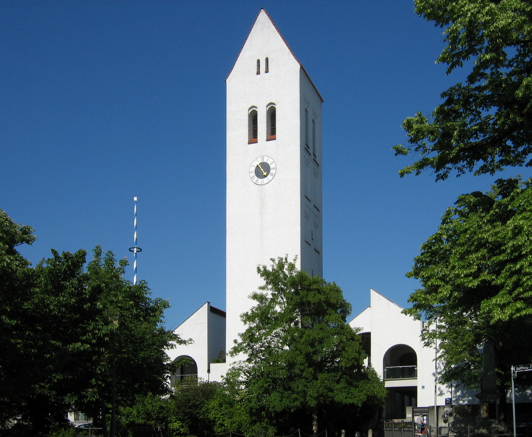 Ismaning, St John the Baptist Parish Church from west.